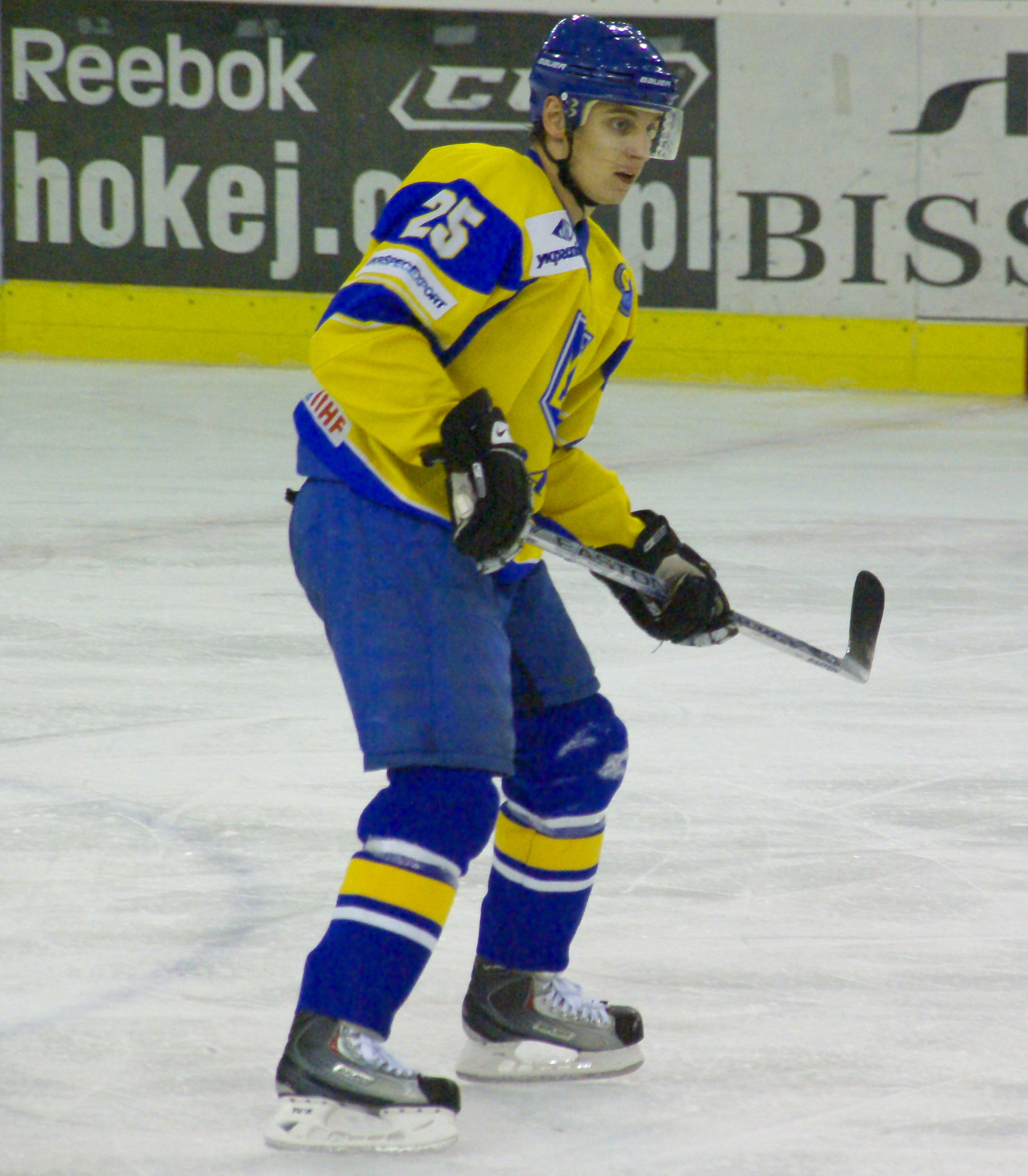 Pavlo Borysenko - EIHC Tournament in Sanok (Poland), 2010 September 11, Ukraine - Russia 0:7